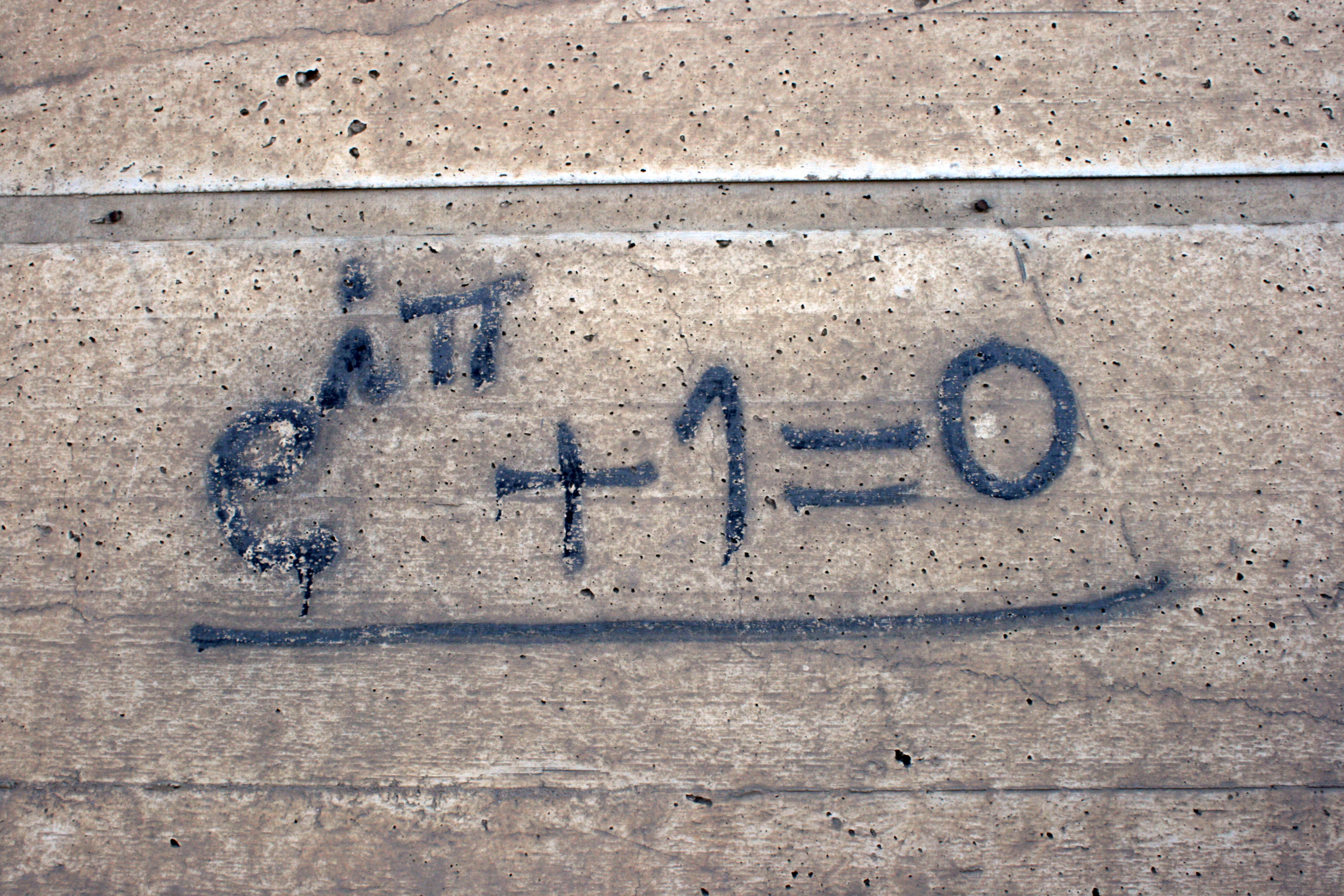 Euler's identity graffito